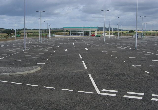 The view east across Ingliston Park & Ride in Edinburgh, south of the airport, shortly before opening.